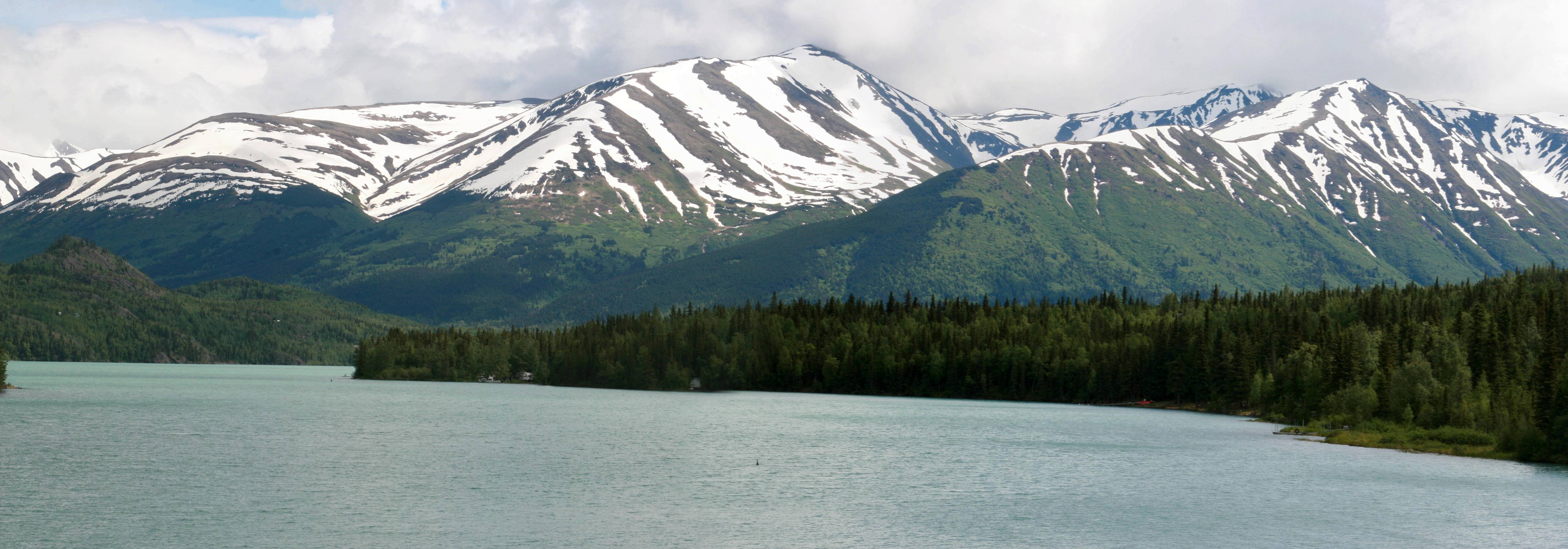 Taken on a quick day trip to the Kenai Peninsula, south of Anchorage, Alaska in June 2008.